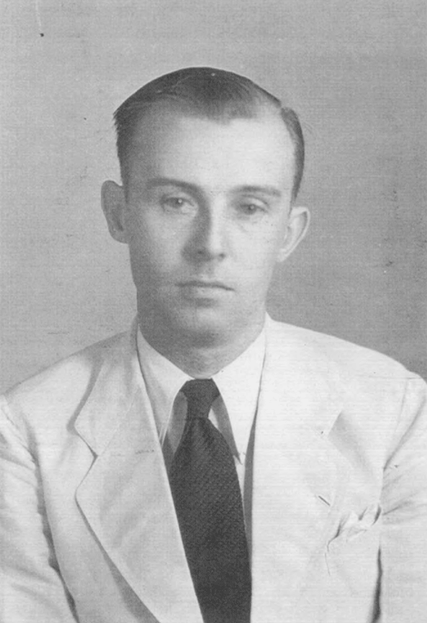 Dutch writer Rob(ert) Nieuwenhuys, ca. 1940. Collection Bert Paasman.